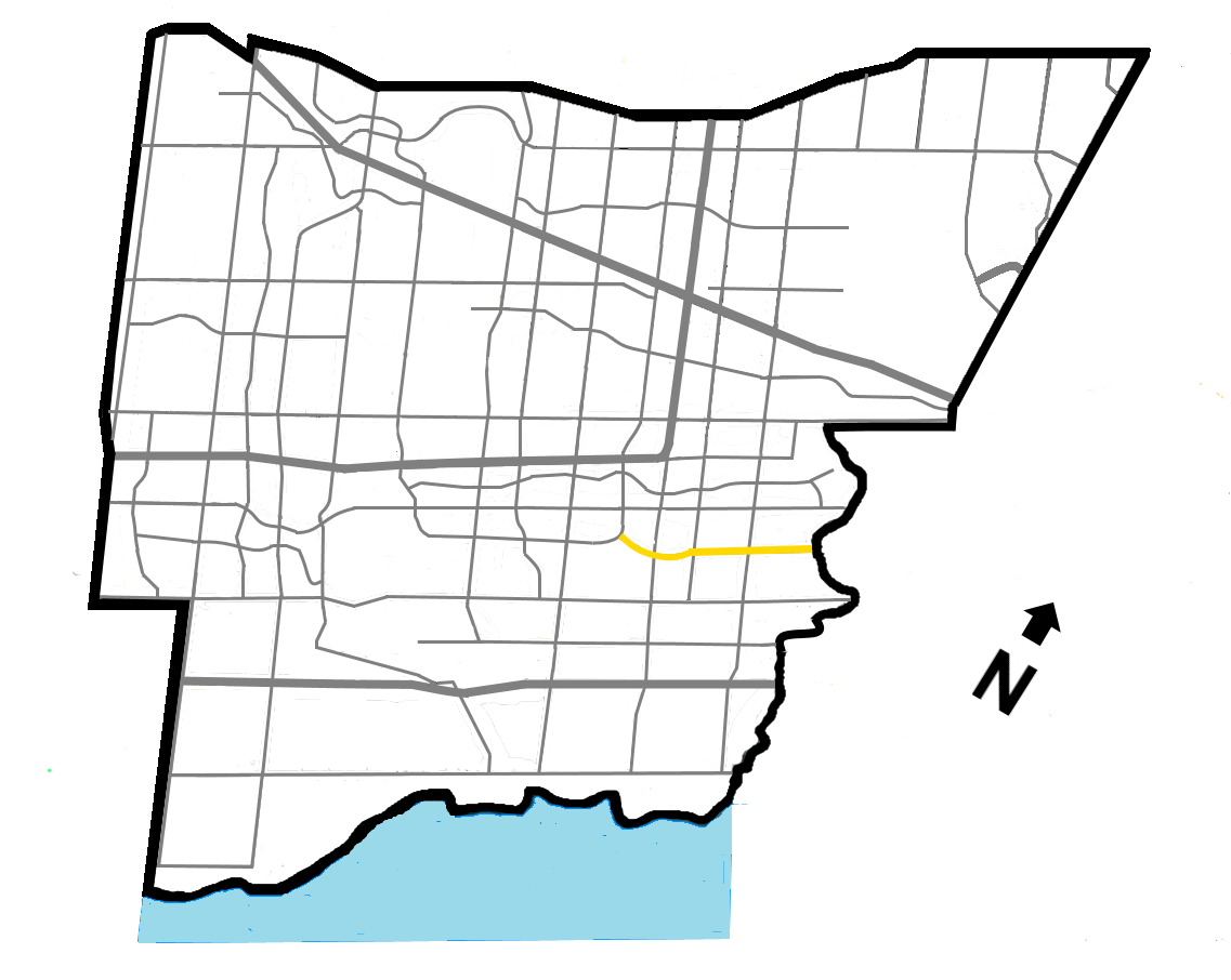 Bloor St. route in Mississauga